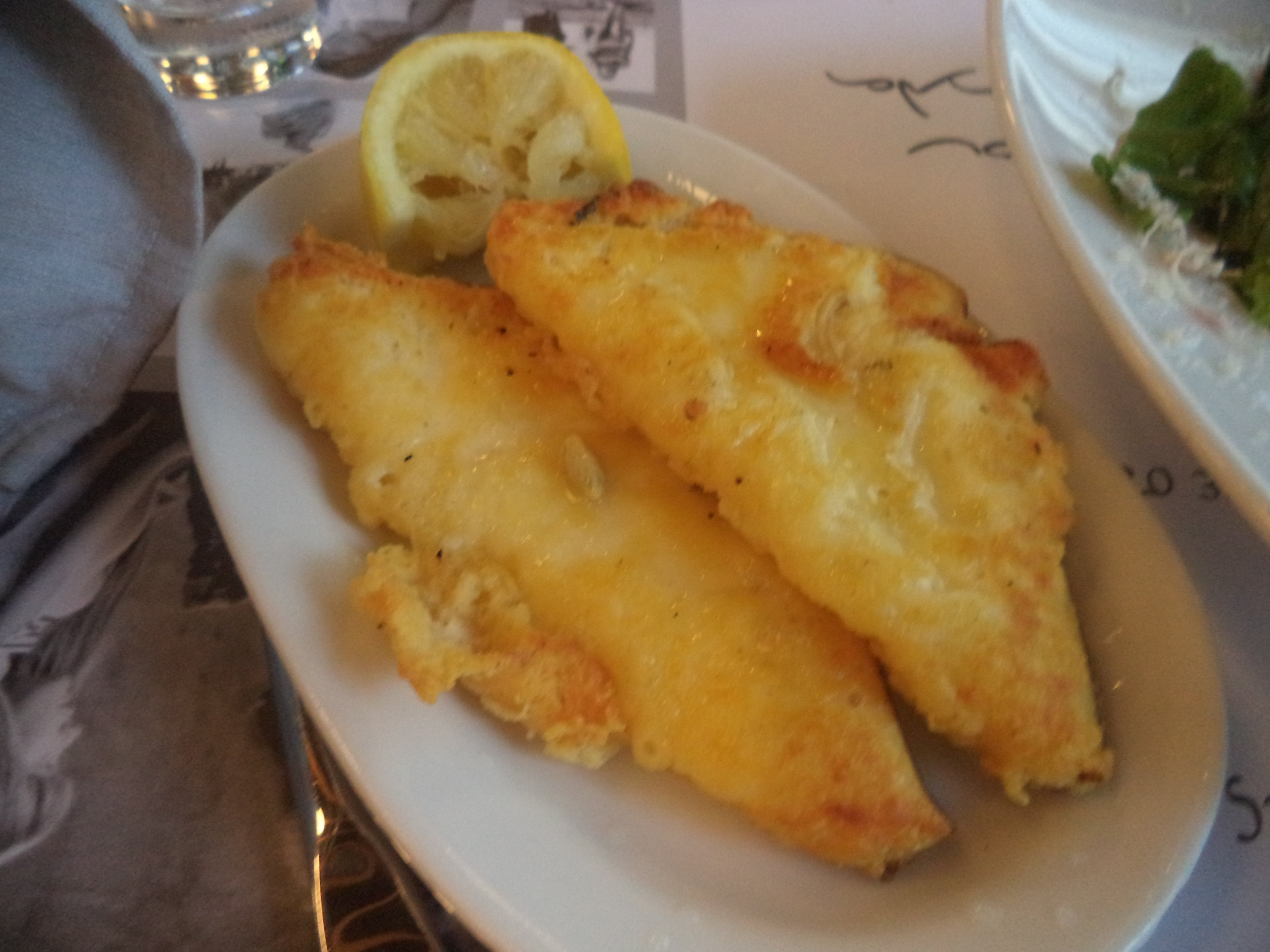 Batzos cheese from Veroia, Greece)